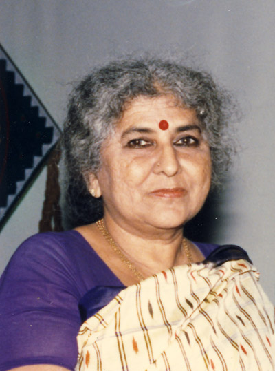 This is a picture of Vinjamuri Seetha Devi taken in a public function around 1990